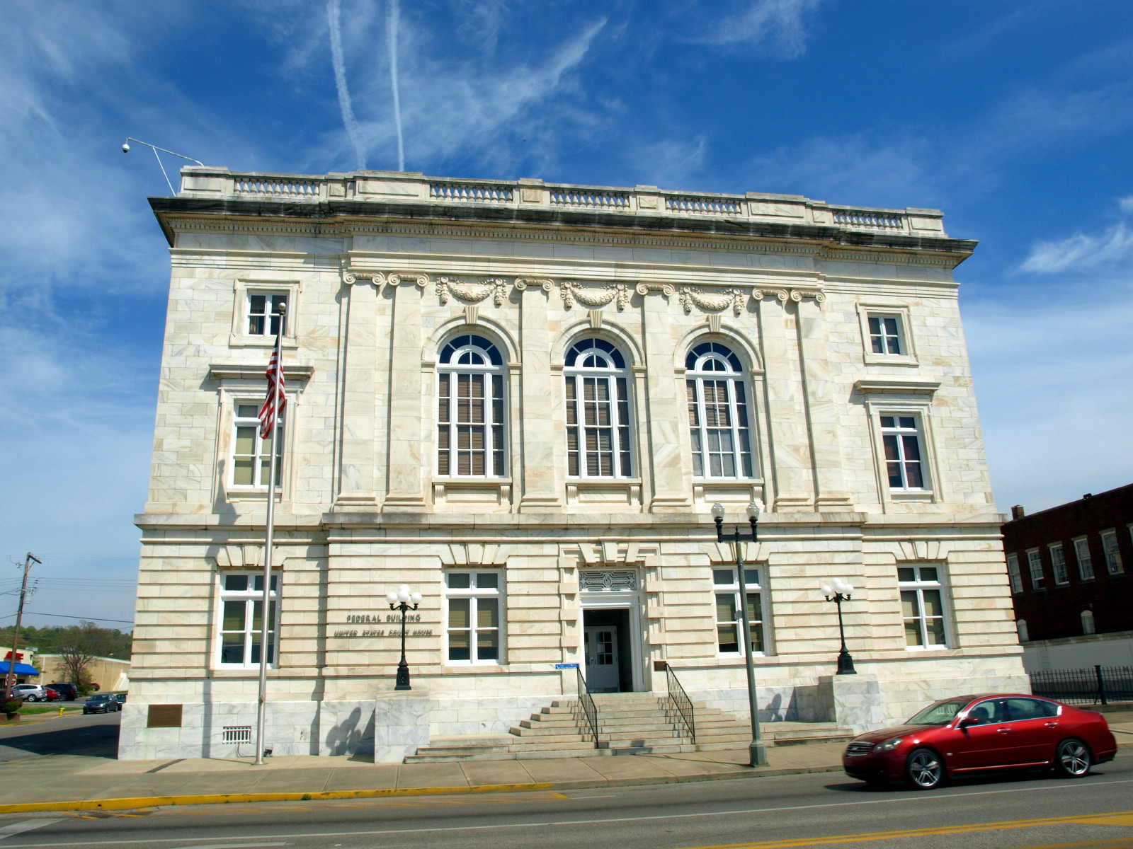 The U.S. Court House and Post Office in Anniston, Alabama, listed on the National Register of Historic Places